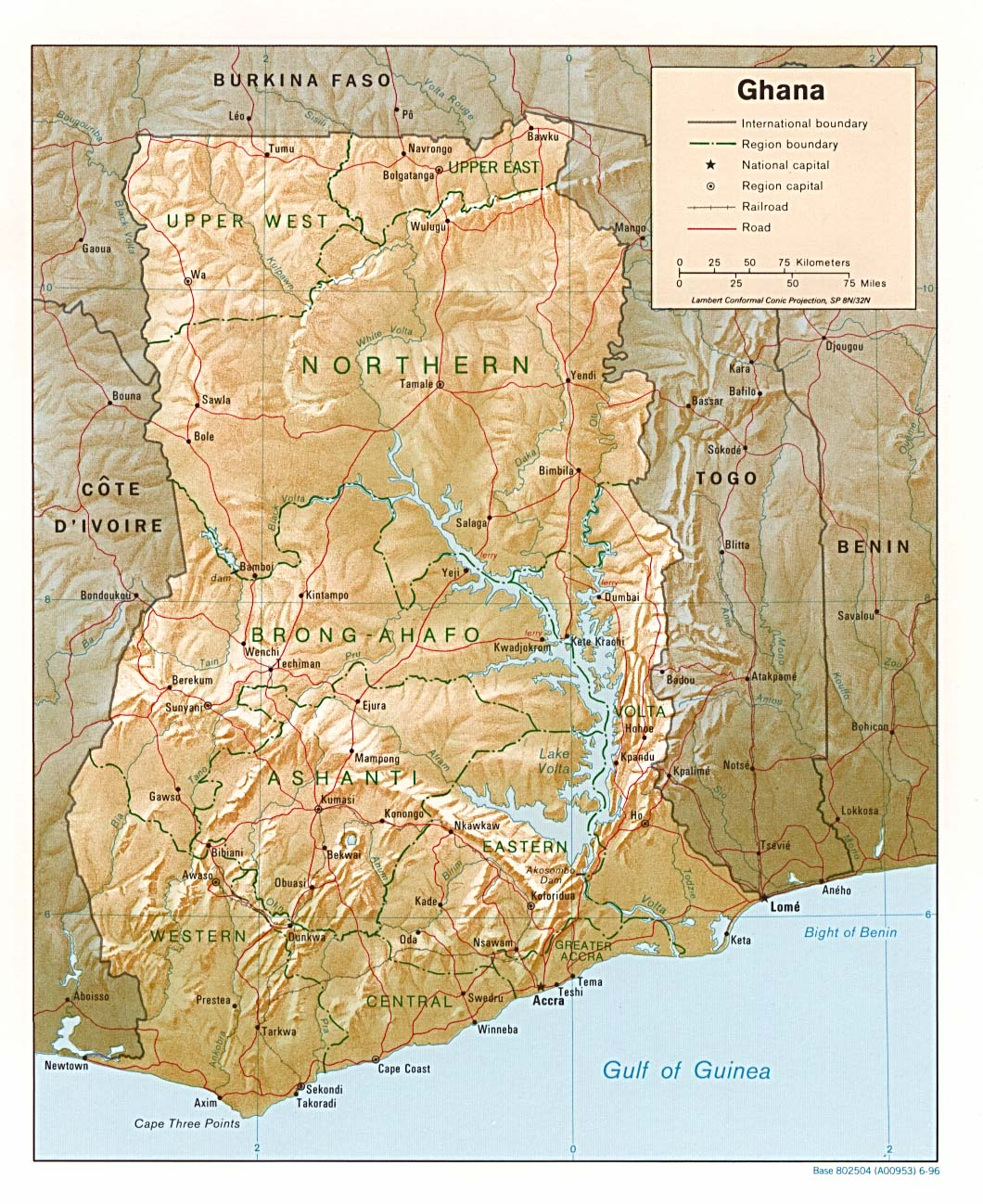 Shaded relief map of Ghana, 1996, produced by the U.S. Central Intelligence Agency.